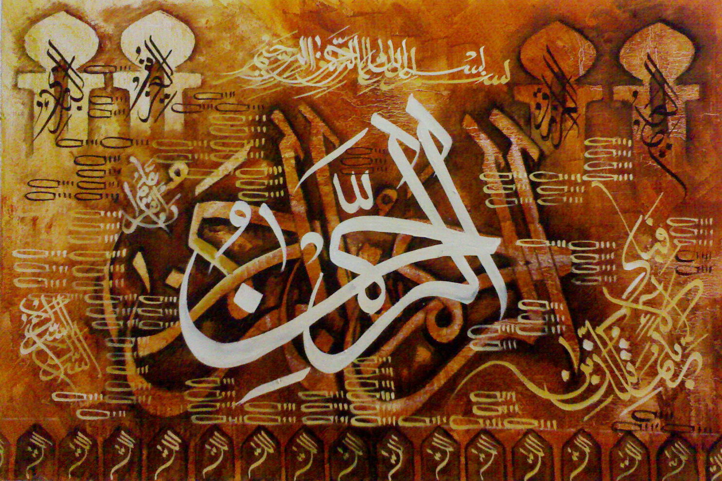 the art of calligraphy